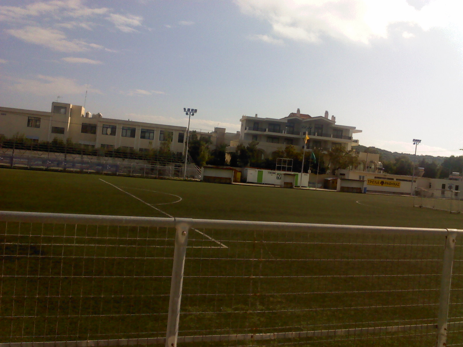 Stadium Rafina